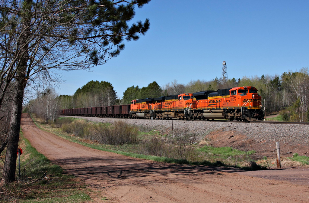 BNSF UMADALL0-10, Nickerson, Minn. A CP conductor thought he got a track warrant for the Stinkley Sub (Hinckley Sub), so we'll go with that.